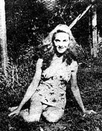 Mercedes Strickler. Real inspiration for "Merceditas", Argentine folk song (chamamé), writen by Ramón Sixto Ríos.